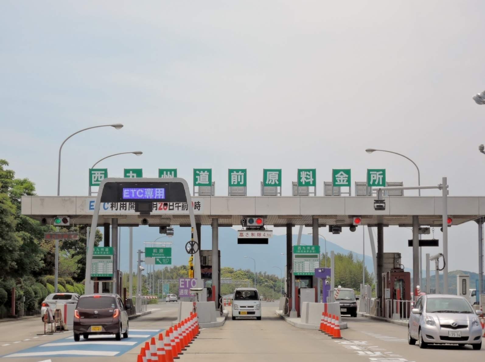 Maebaru Toll Gate on the Nishi-Kyushu Expressway